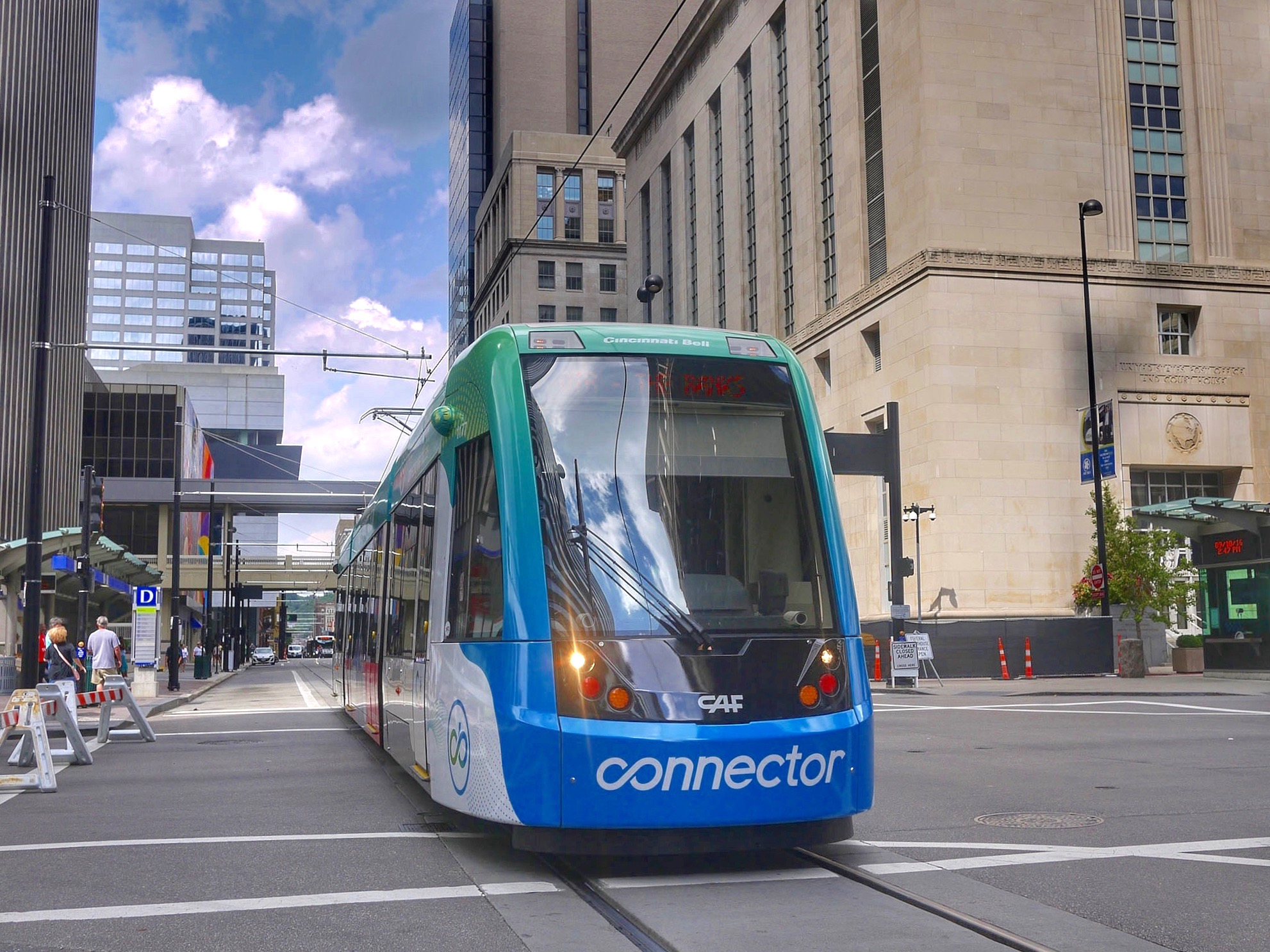 A streetcar of the Cincinnati Bell Connector system southbound on Walnut Street at 5th Avenue, in downtown Cincinnati, on the opening weekend of the system. In the righthand background is the Potter Stewart United States Courthouse.